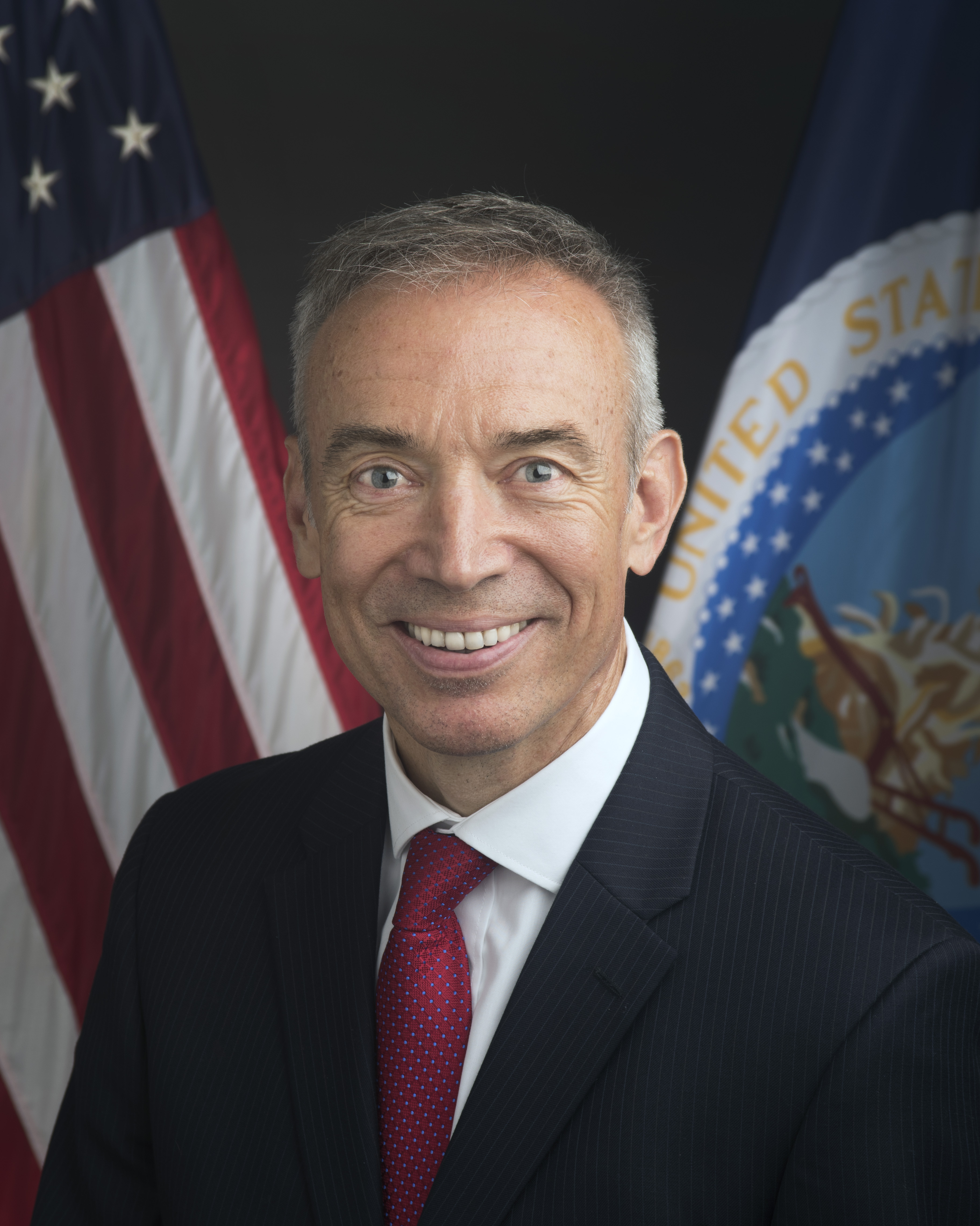 Steve Censky, Deputy Secretary of Agriculture, portrait and passport in Washington,. DC on Tuesday, Oct. 10, 2017.